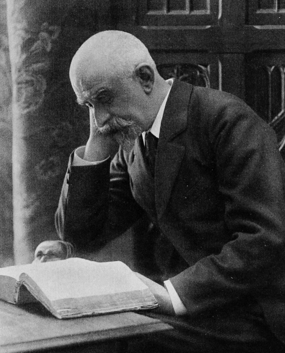 Joris Karl Huysmans